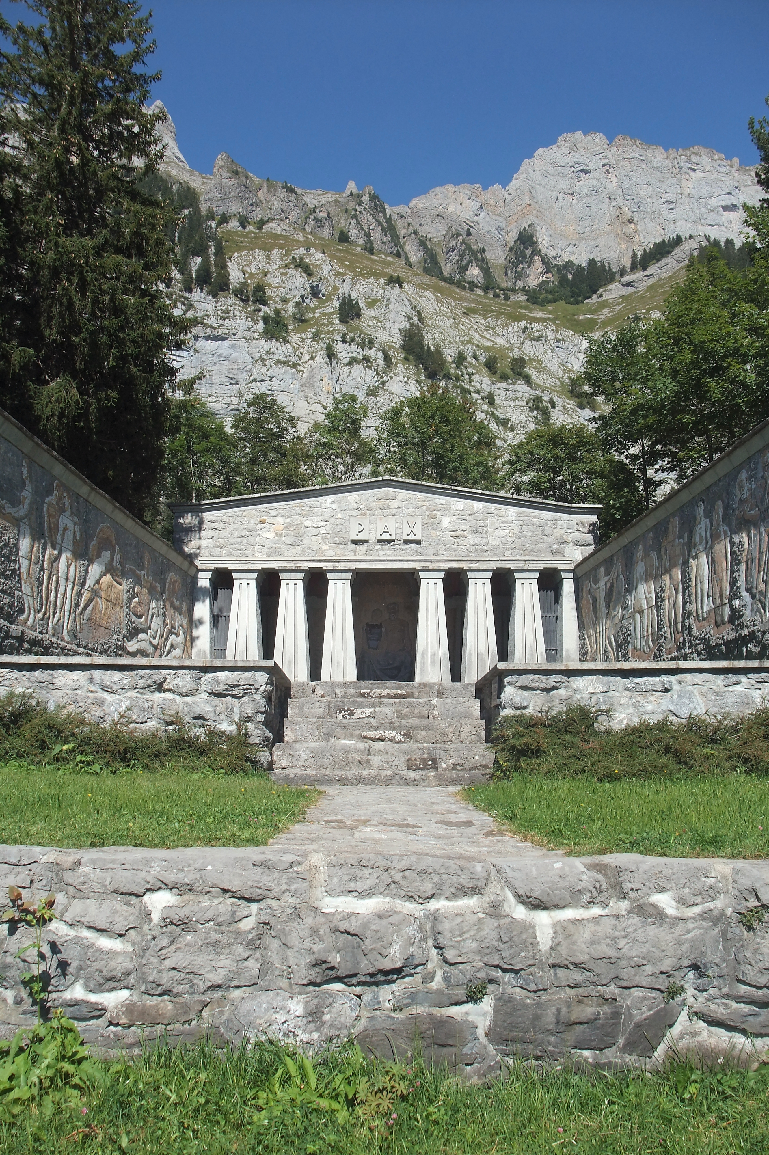 A monument, created by one man in a time of 25 years, from 1924 to 1949. The location high above the Walensee (Lake Walen) on 1282 m.ü.M. (4206 ft asl) is a so-called hotspot or energy-place. During the construction, Karl Bickel worked as a freelancer for the printing and stamps department of the post administration in Bern. In 1966 he gave the monument to the Swiss PTT enterprises. The artist died in 1982, 33 years after the completion of this work, here on the mountain. The bare brickwork is made of limestone blocks of the rocks from the near Churfirsten mountains behind. In June and July 2007 there were even weddings at this location. Walenstadtberg, Switzerland, Sep 8, 2012.